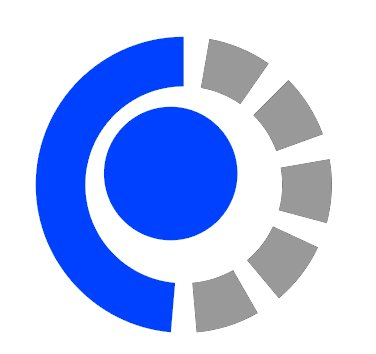 Logo of Faculty of Computer Science, organism depending of National University of Comahue in Río Negro Province, Argentina.